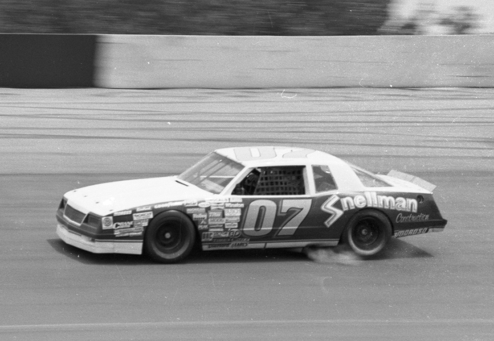 Randy LaJoie drives the No. 07 Snellman Racing Chevrolet during the 1986 NASCAR Winston Cup Series Miller High Life 500 at Pocono Raceway, June 8 1986.